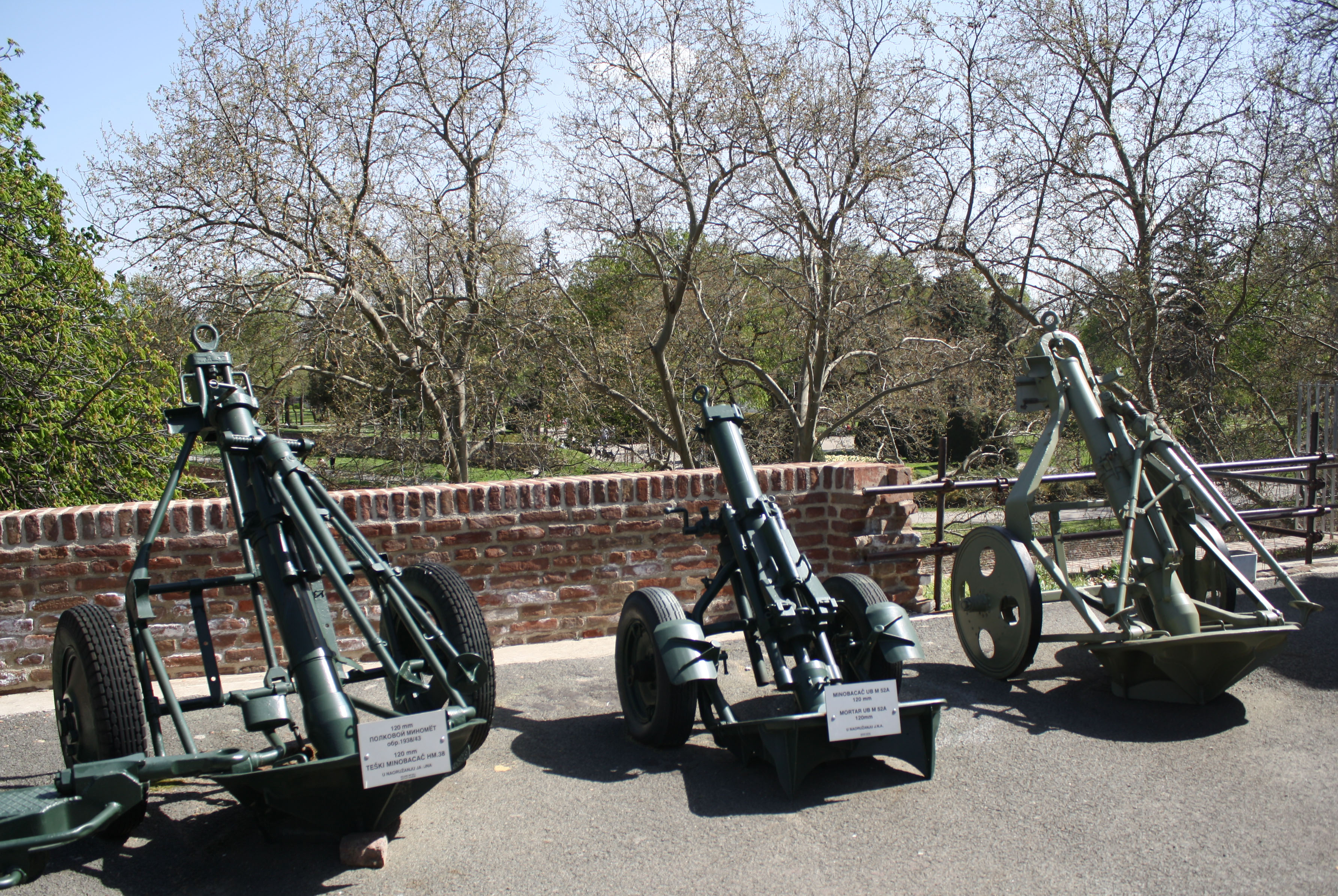 Mortars used by Yugoslav People's Army, part of Belgrade Military Museum outer exhibition at Kalemegdan fortres.